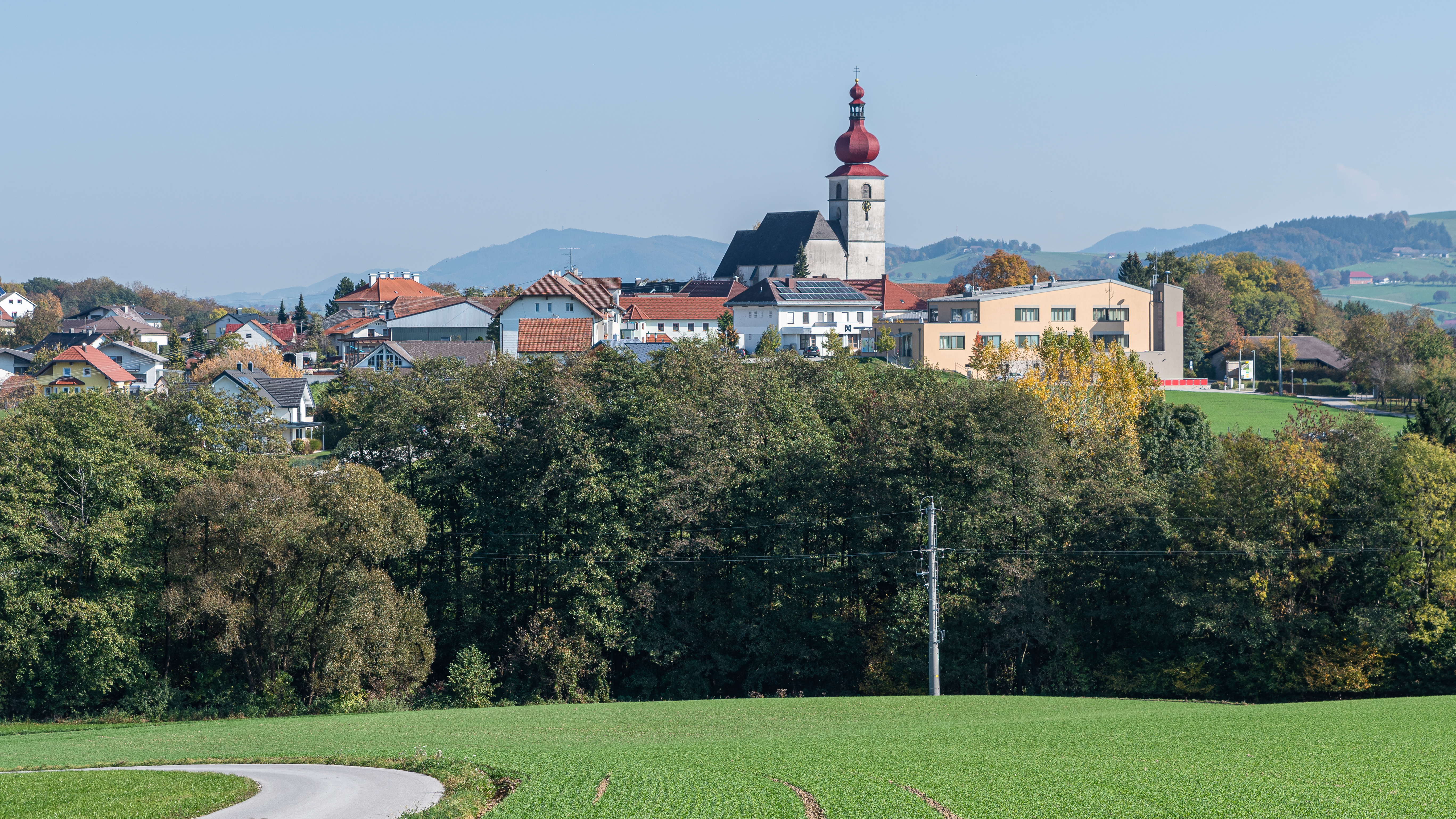 Waldneukirchen is a community in Upper Austria in Bezirk Steyr-Land. Waldneukirchen